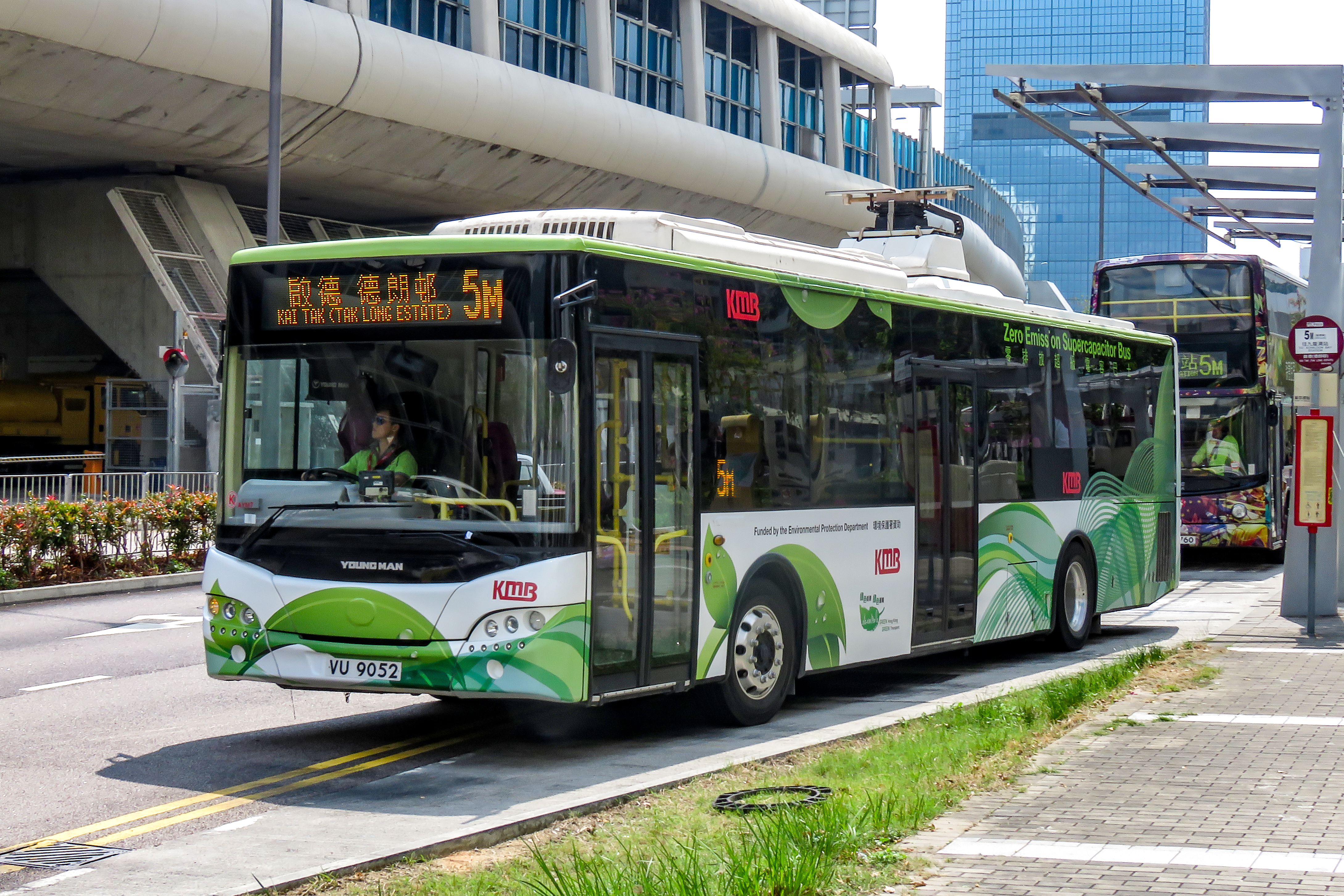 Actually this Youngman supercapacitor bus is heading for another journey to Kowloon Bay Station.